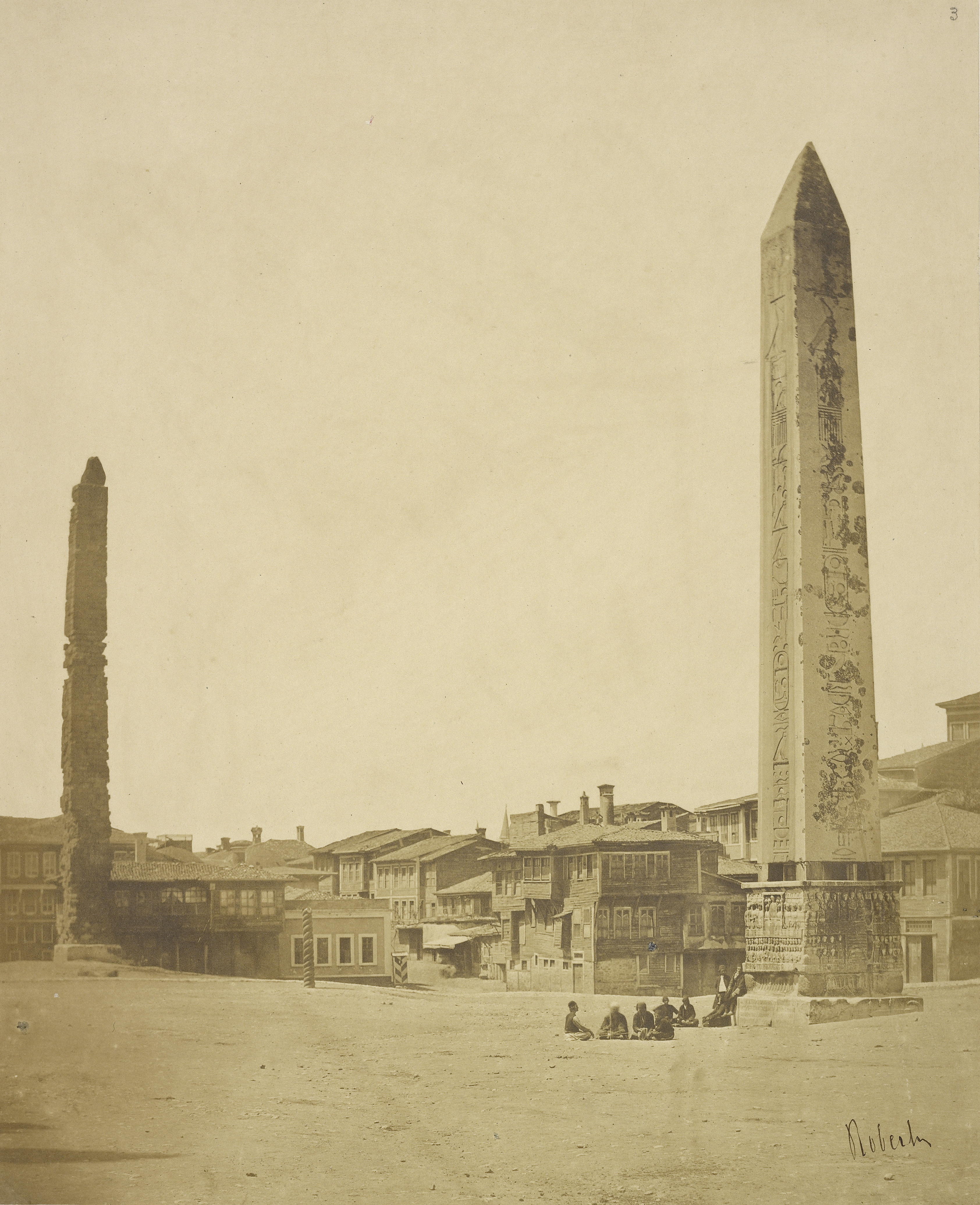 View of At Meydanı (Hippodrome of Constantinople), with, from left to right, the Walled Obelisk, the Serpent Column and the Obelisk of Theodosius. Istanbul, 1853